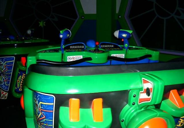 A space cruiser vehicle in Disneyland's Buzz Lightyear Astro Blasters attraction.